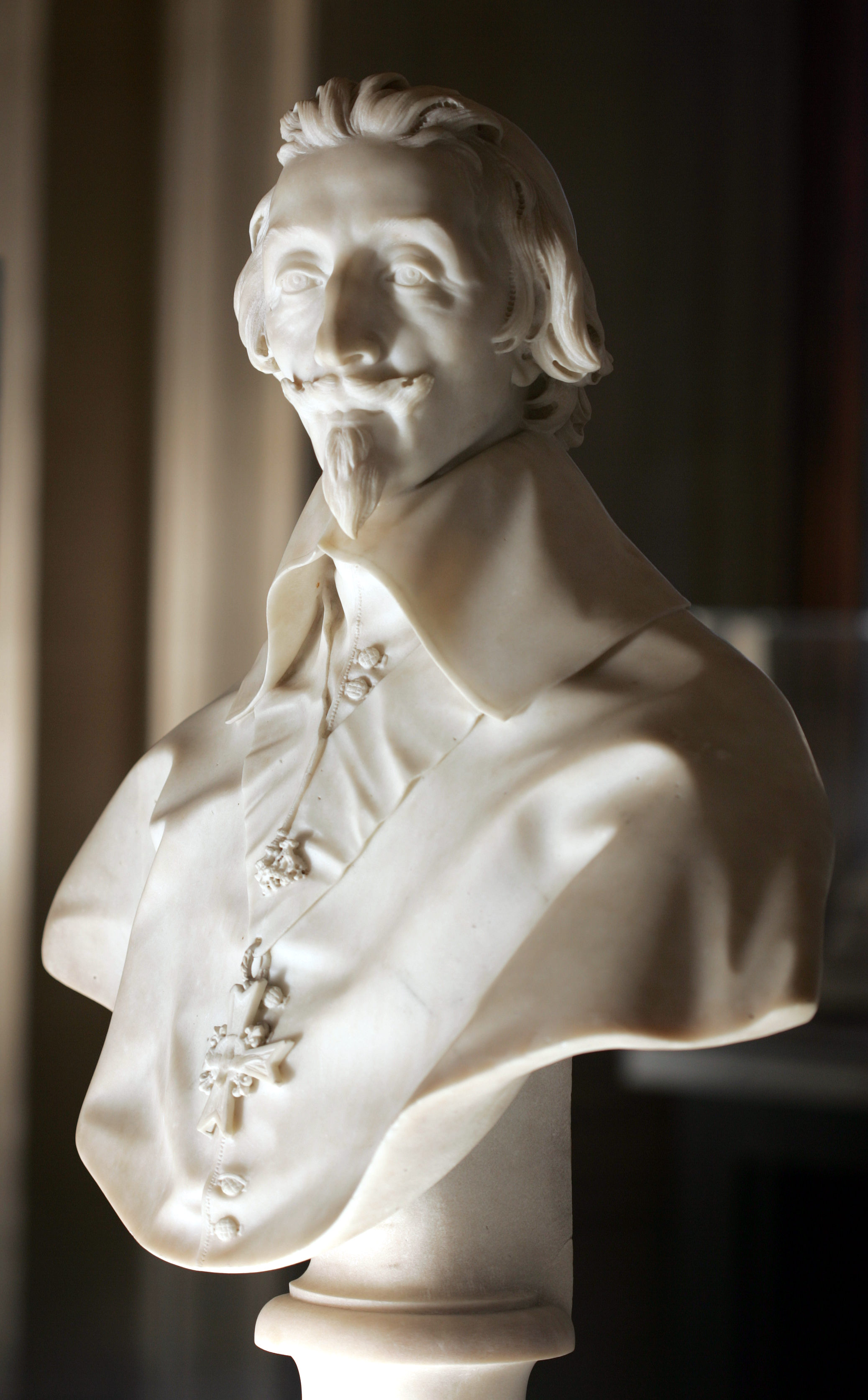 Gian Lorenzo Bernini: Bust of Cardinal Richelieu Artist Unknown artistTitle Bust of Cardinal Richelieulabel QS:Les,"Busto del cardenal Richelieu (Bernini)" label QS:Lfr,"Le Cardinal de Richelieu" label QS:Luk,"Погруддя кардинала Рішельє" label QS:Lnl,"Bust of Cardinal Richelieu" label QS:Lde,"Büste von Kardinal Richelieu" label QS:Lpt,"Busto do Cardeal Richilieu" label QS:Len,"Bust of Cardinal Richelieu" label QS:Lit,"Busto del cardinale Richelieu"Object type sculpture Genre bust Depicted people Cardinal Richelieu Date 1641 Medium marblemedium QS:P186,Q40861 Dimensions 82 × 65 × 33 cm (32.2 × 25.5 × 12.9 in)Collection Louvre Museum (Inventory)Native nameMusée du LouvreParent institutionÉtablissement public du musée du Louvre LocationParisCoordinates48° 51′ 37.42″ N, 2° 20′ 15.36″ E Established1793 Web page control : Q19675 VIAF: 257711507 ISNI: 0000 0001 2260 177X ULAN: 500125189 LCCN: n80020283 NLA: 35912436 WorldCat institution QS:P195,Q19675Current location Department of Sculptures of the Louvre Michelangelo GalleryAccession number MR 2165 (Department of Sculptures of the Louvre) Object location 48° 51′ 40″ N, 2° 20′ 11″ E Object history 1640: unknown event: order References [ Louvre.fr]Authority control : Q3647650 Atlas: 3031 Source/Photographer Rama